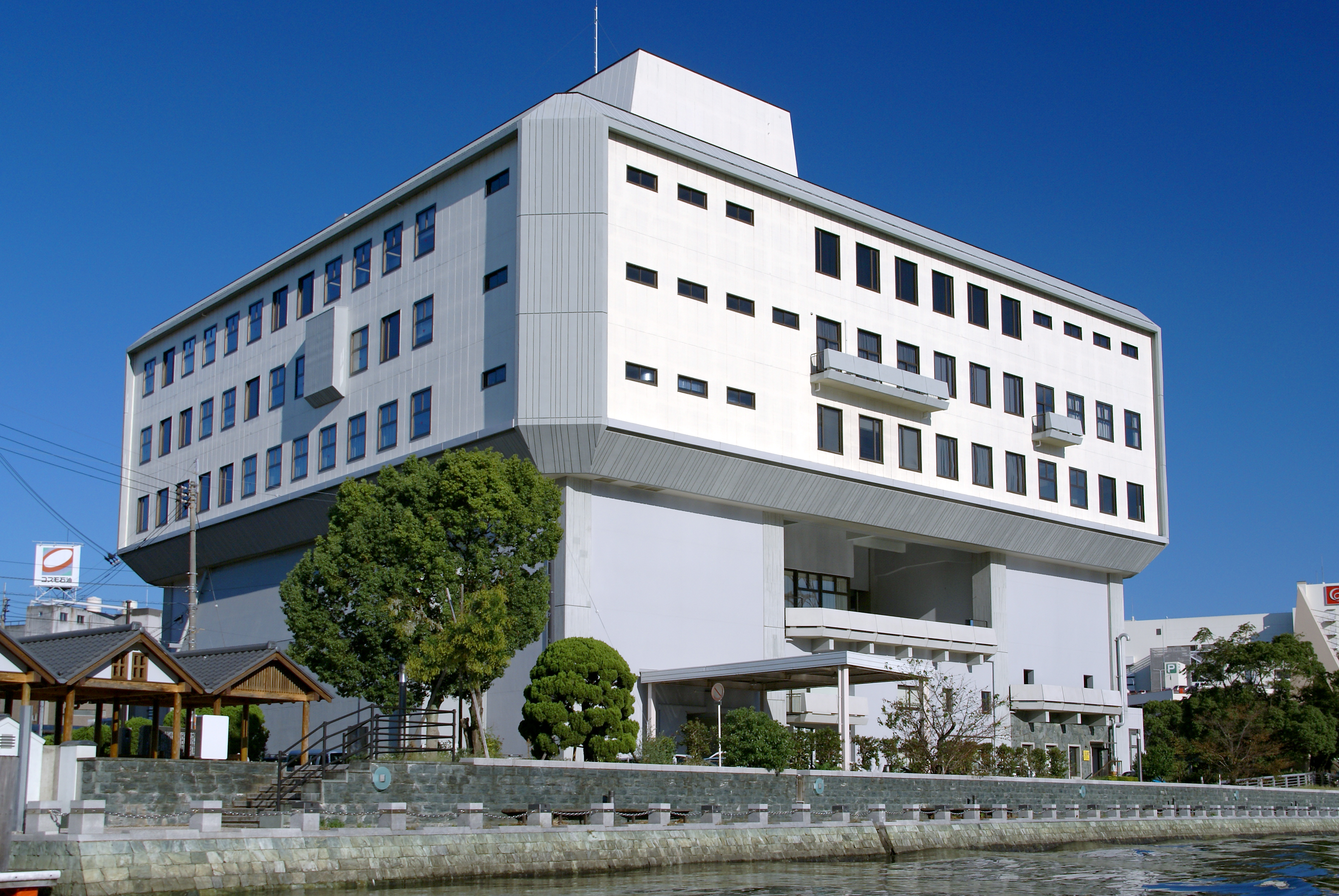 Tokushima Arts Foundation for Culture in Tokushima, Tokushima prefecture, Japan